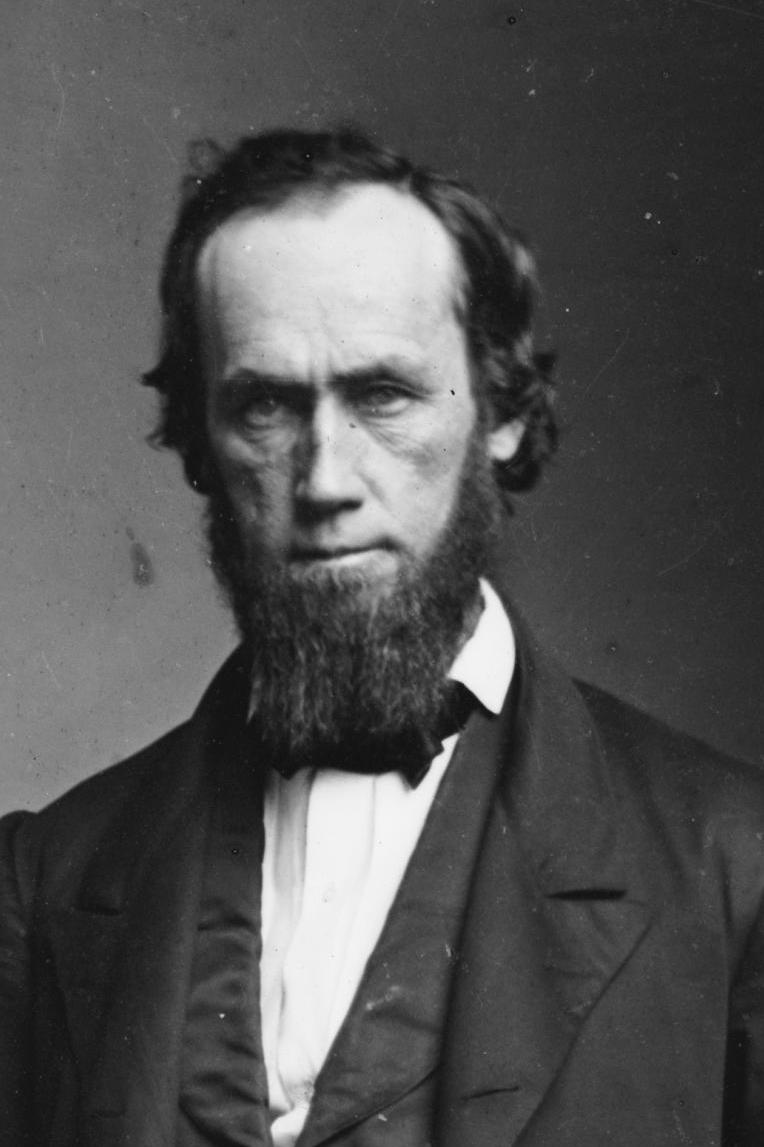 William Vandever. Library of Congress description: "Hon. Wm. Vandever"